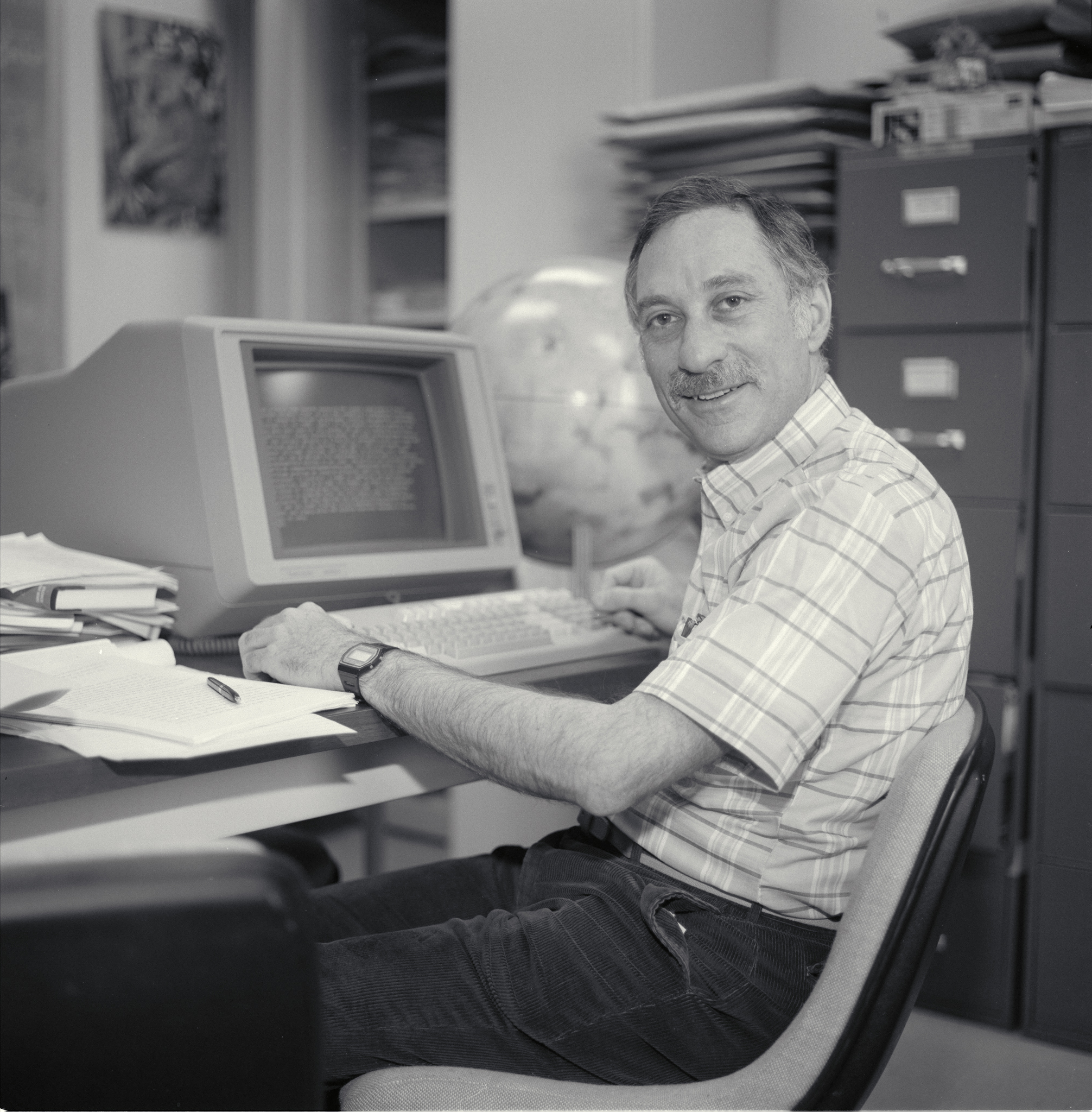 Dr. James Pollack of the Ames Theoretical Studies Branch